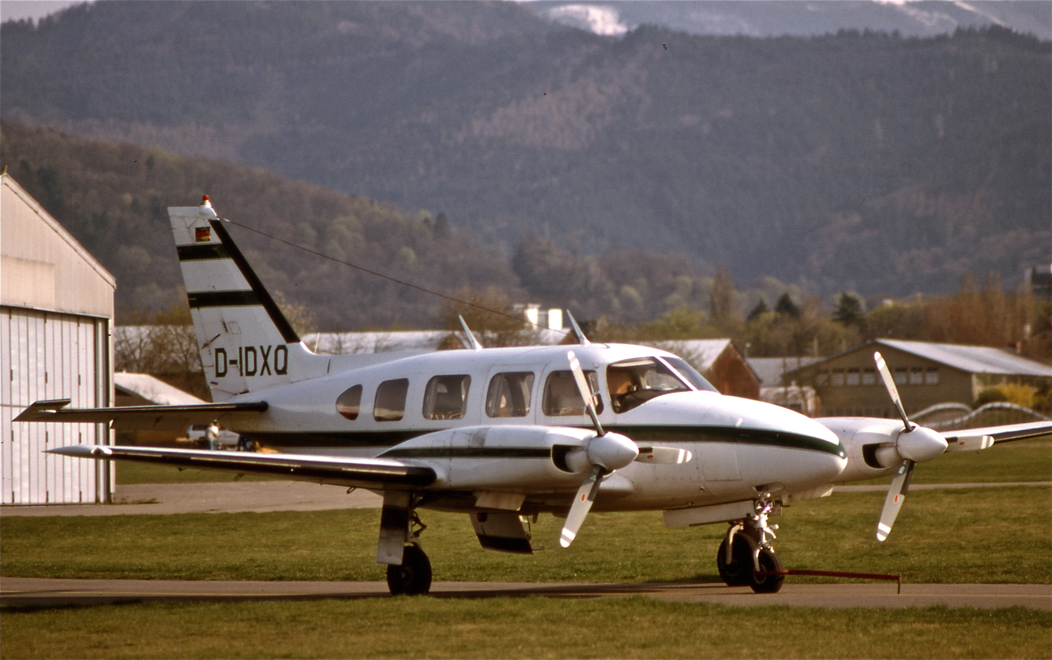 Piper PA 31 Navajo D-IDXQ (c/n 31-294) of Flugdienst Freiburg Harter at Freiburg airfield (EDTF), 12 April 1992.